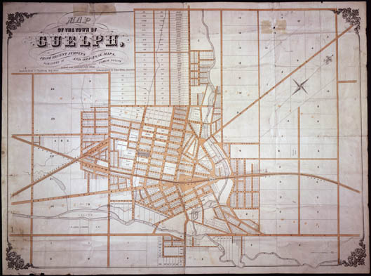 "Map of the Town of Guelph, from recent surveys and original maps"